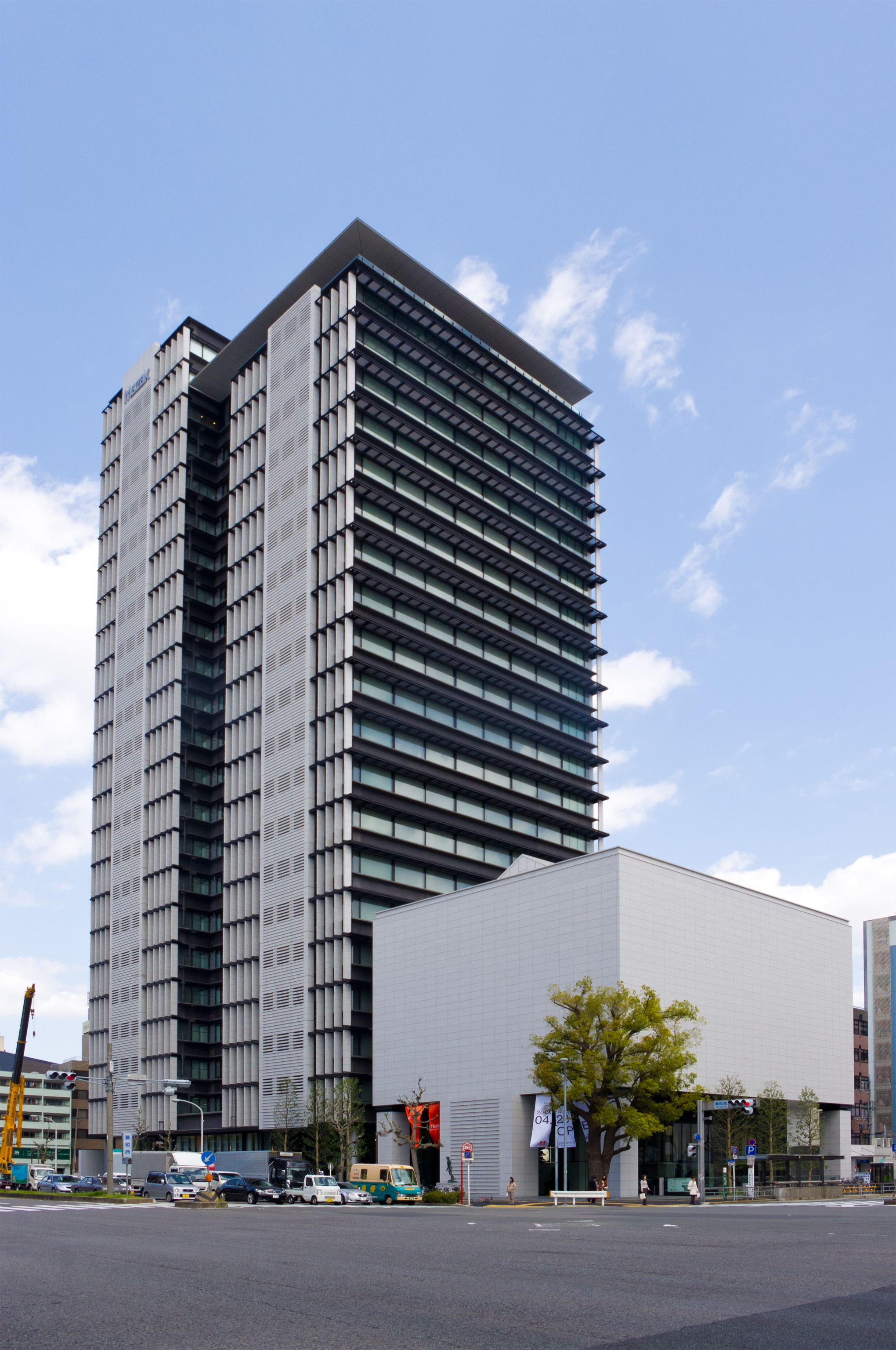 MAZAK Art Plaza and the YAMAZAKI MAZAK Museum of Art